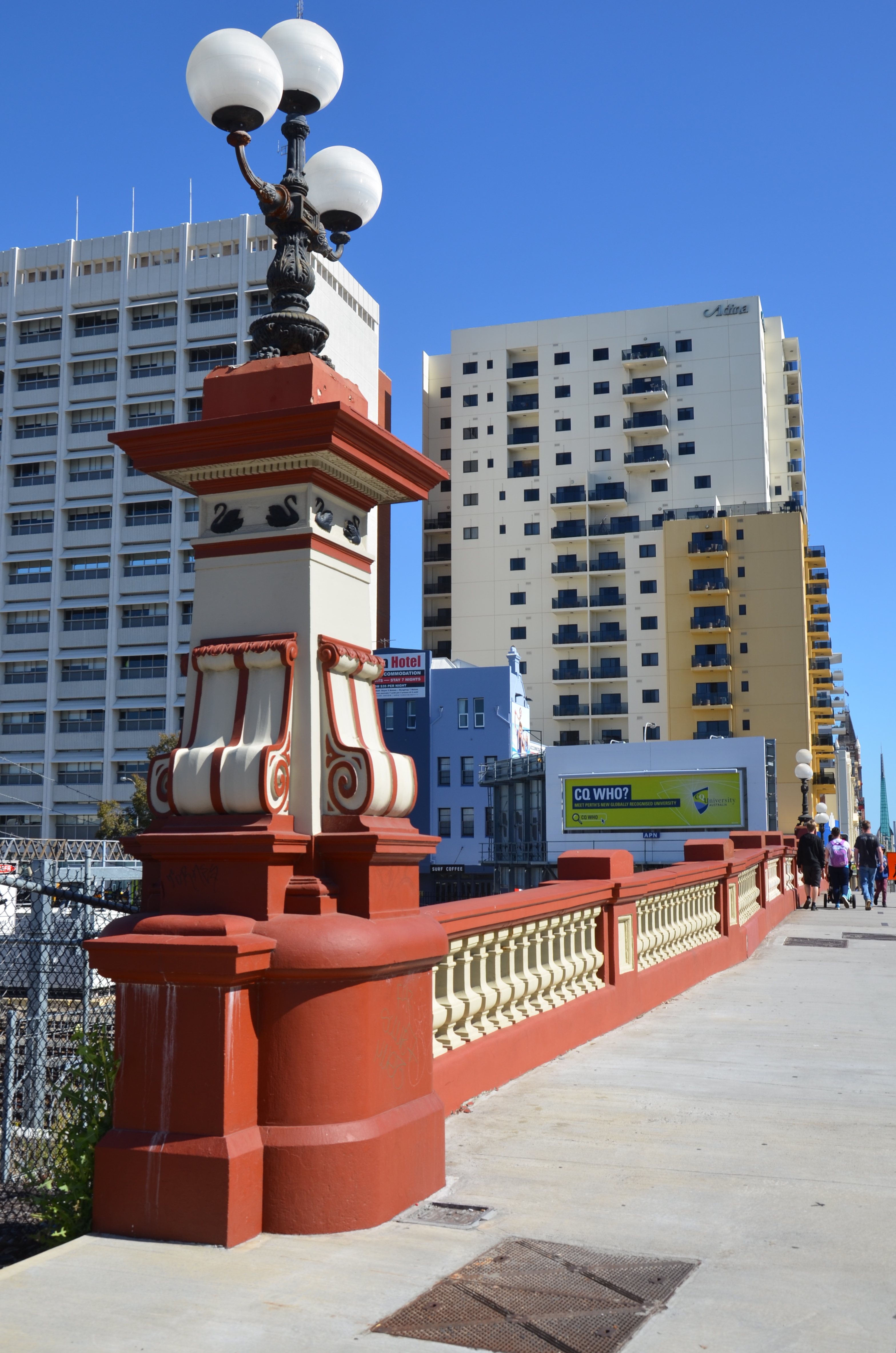 Eastern pathway of the Barrack Street bridge